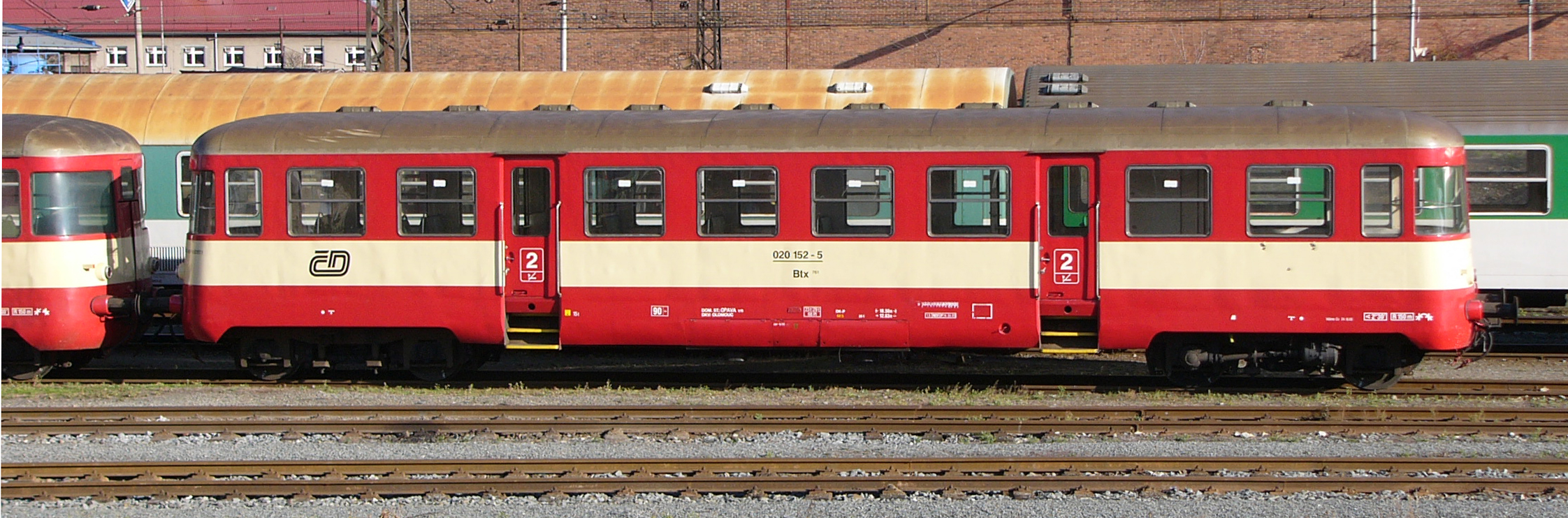 Passenger car in Czech Republic.